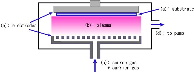 Schematic diagram of a plasma CVD (Chemical Vapor Deposition) system.